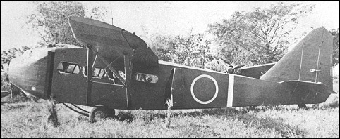 The Kokusai Ku-8 (Type 4 Special Transport Glider[1]) was a Japanese military glider used during the Second World War. The glider was essentially a Kokusai Ki-59, with the engines and fuel tanks removed and a modified undercarriage. It was given the Allied code name Goose and later Gander. It could carry eighteen troops, or 1500 kg of cargo and two crew.